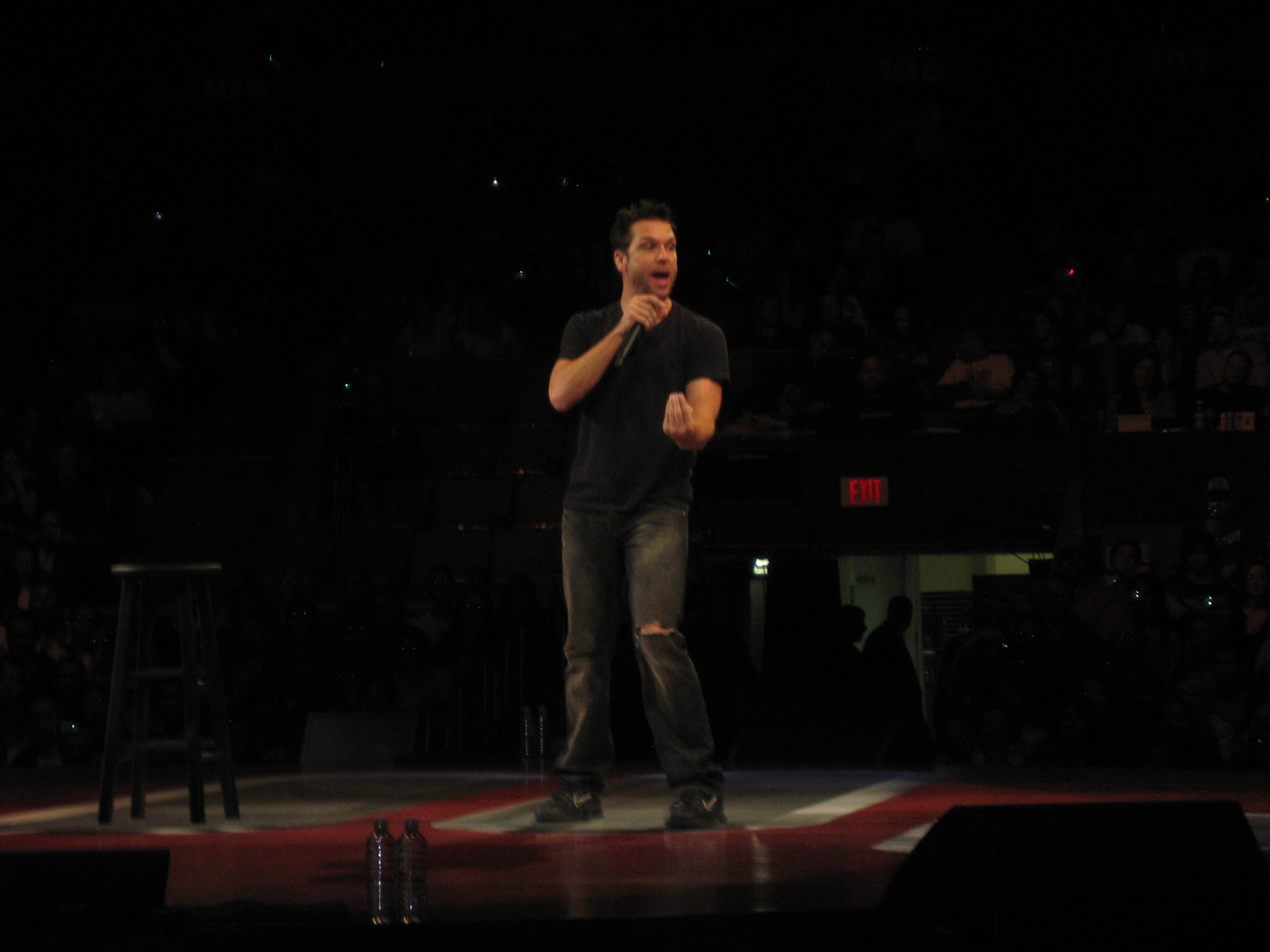 Dane Cook at Madison Square Garden, 2007-11-18